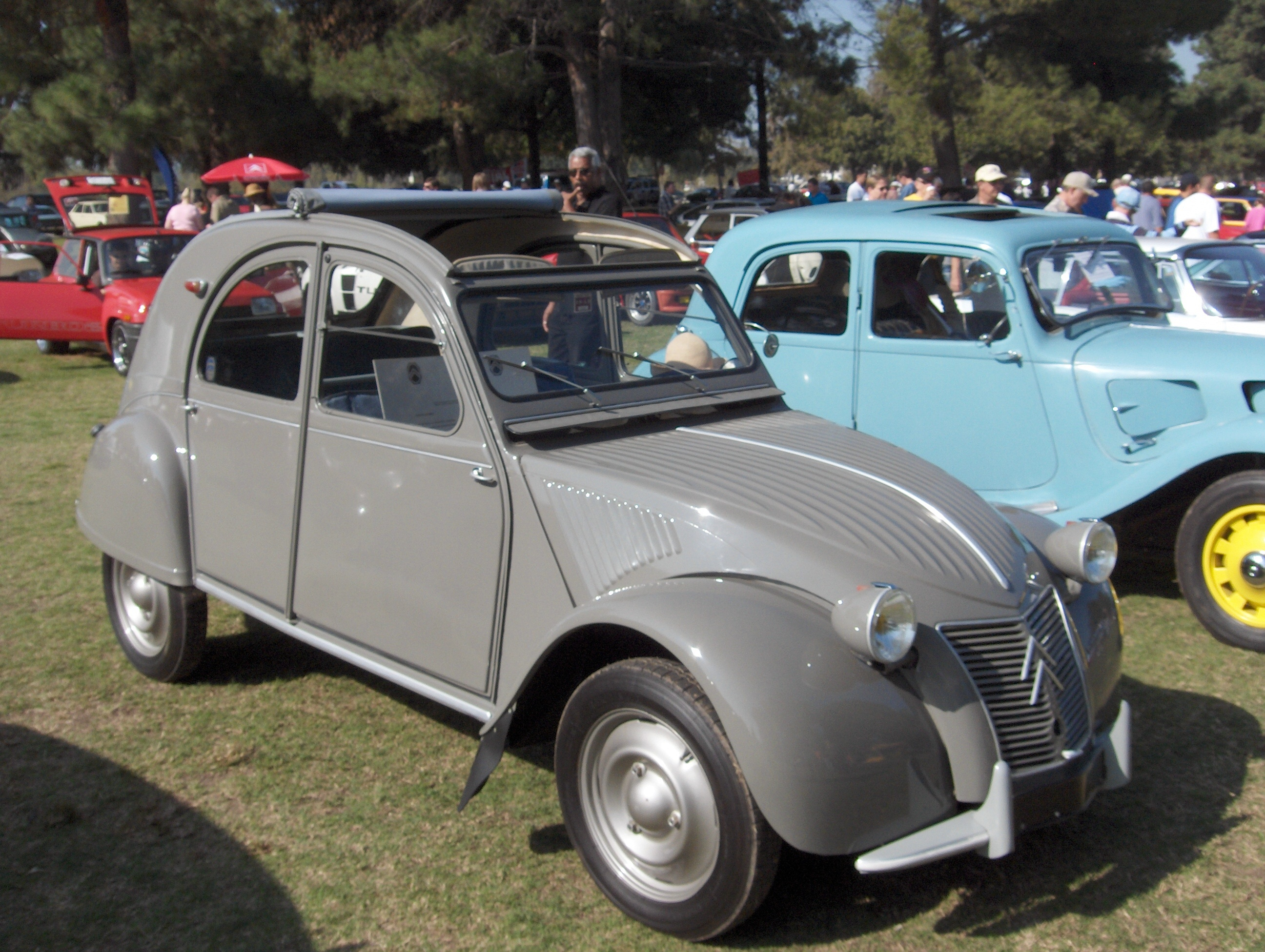 A 1955 Citroen 2CV.